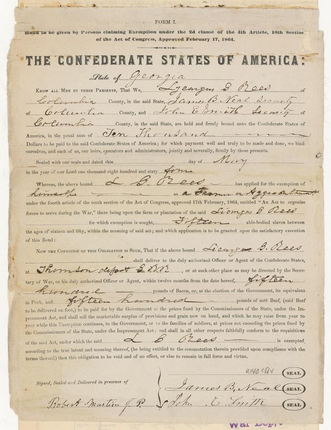 Application for exemption from military service made in May of 1864 under provisions of the "Twenty Negro Act" passed by the Confederate States of America made by Private Lycurgas Rees, on the grounds of owning fifteen slaves. Original in U.S. National Archives and Records Administration.